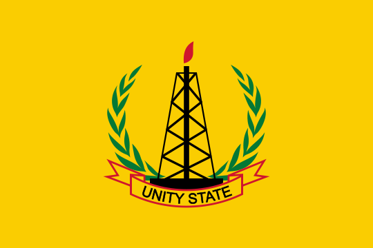 Flag of Unity State in South Sudan and formerly Sudan.